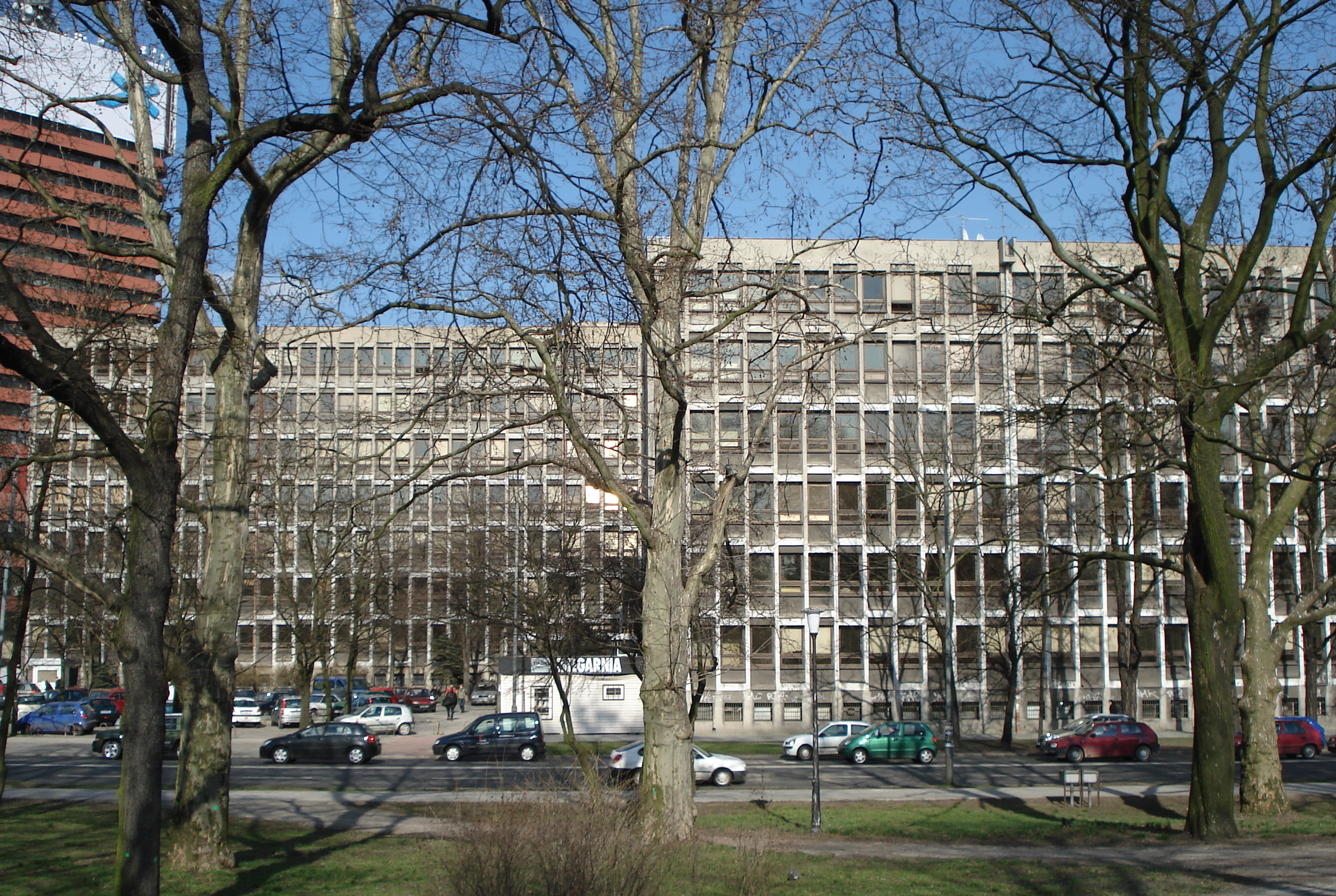 Collegium Novum of the Adam Mickiewicz University in Poznań